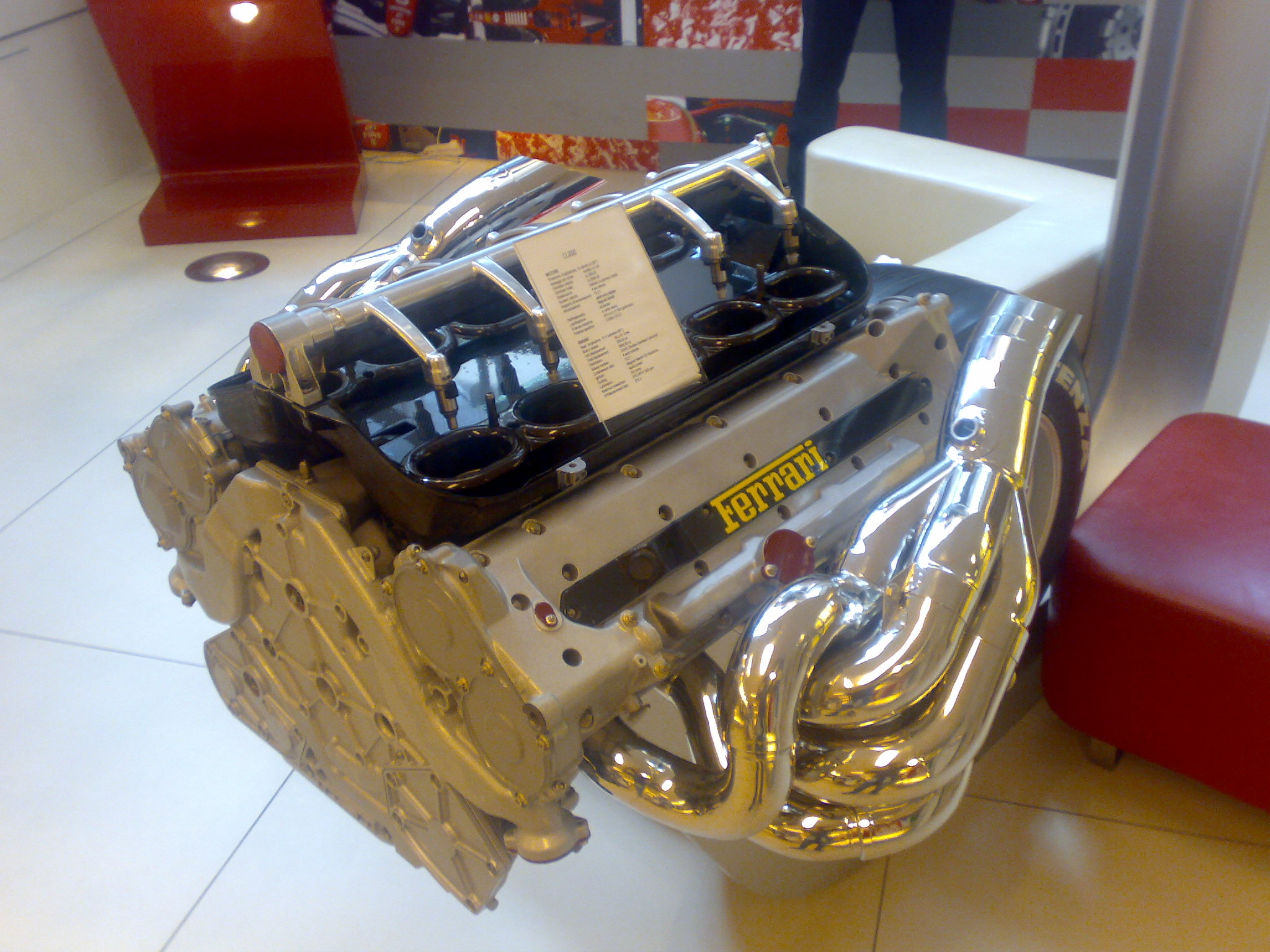 motor of Ferrari F1 2000